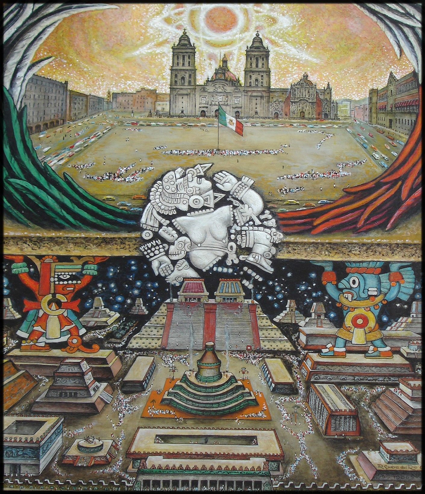 Fundacion Tenochtitlan by Roberto Cueva Del Río